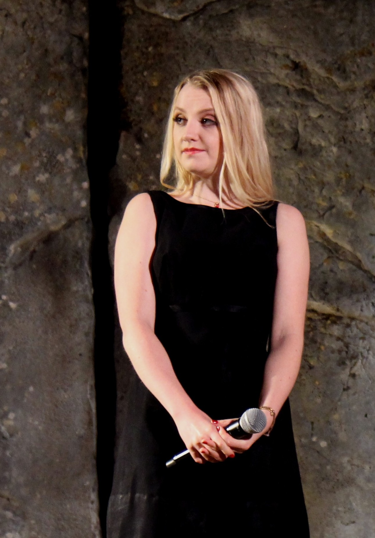 Evanna Lynch, Universal Studios Hollywood, April 2016.